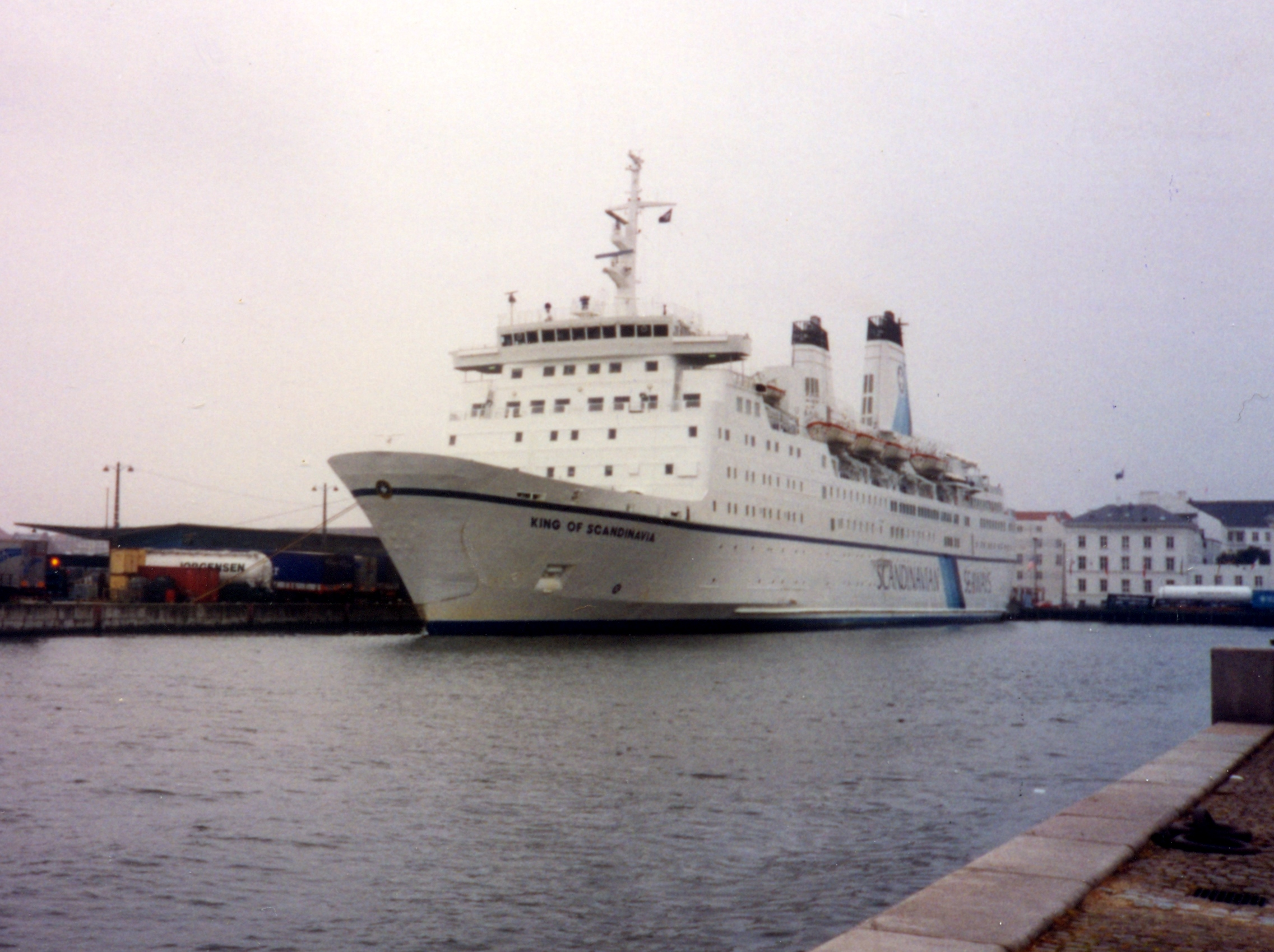 Scandinavian Seaways ferry 'King of Scandinavia' in 1993